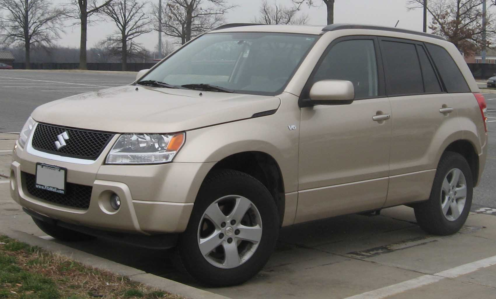 2006-2008 Suzuki Grand Vitara photographed in College Park, Maryland, USA.